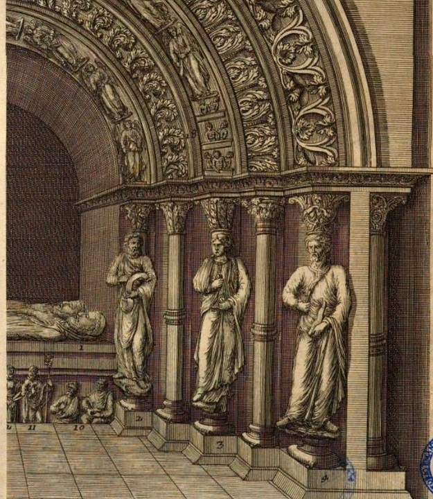 Detail (Right bottom) of drawing of St. Otgerius (Ogier) and St. Benedict masoleum, at the formoer Abbaye de St. Faro, Meaux. The two saints are tomb effigies lying down. Standing statues numbered are 2) Otgerius 3) la belle Aude 4) Roland. See file:ActSanctOrdSBen1735-p624.png for legible legends.